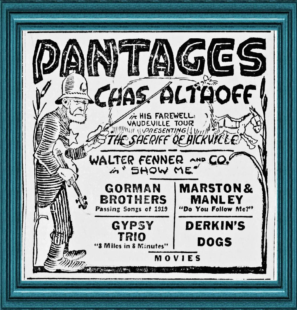 Pantages ad - Gorman bros